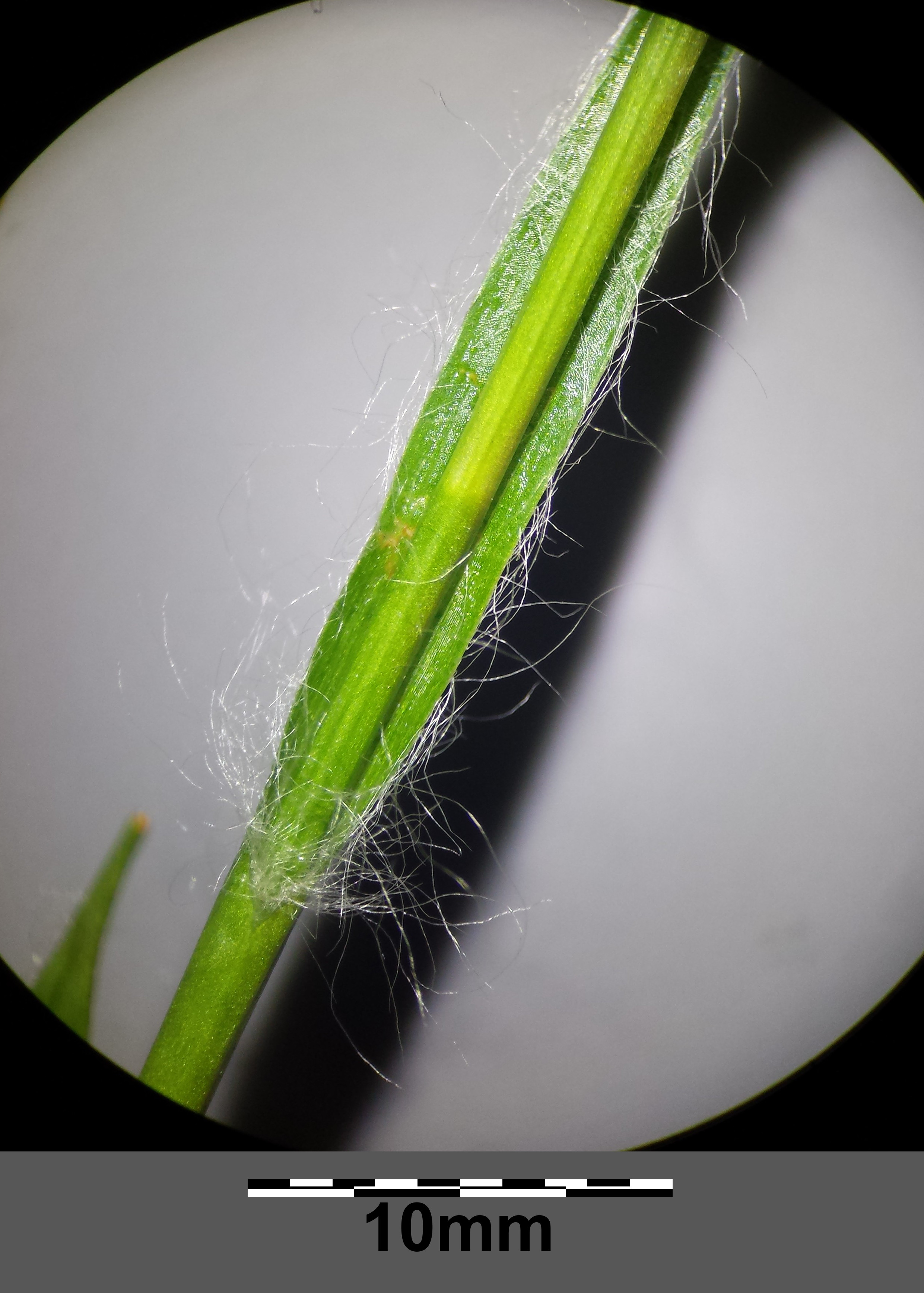 Stem with leaf (sheath) Taxonym: Luzula pilosa ss Fischer et al. EfÖLS 2008 ISBN 978-3-85474-187-9 Location: Rohrwald, district Korneuburg, Lower Austria - ca. 260 m a.s.l. Habitat: Carpinion betuli